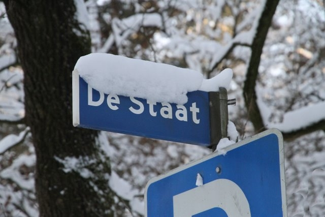 Street name sign of "De Staat" in Sint Anthonis, NB.